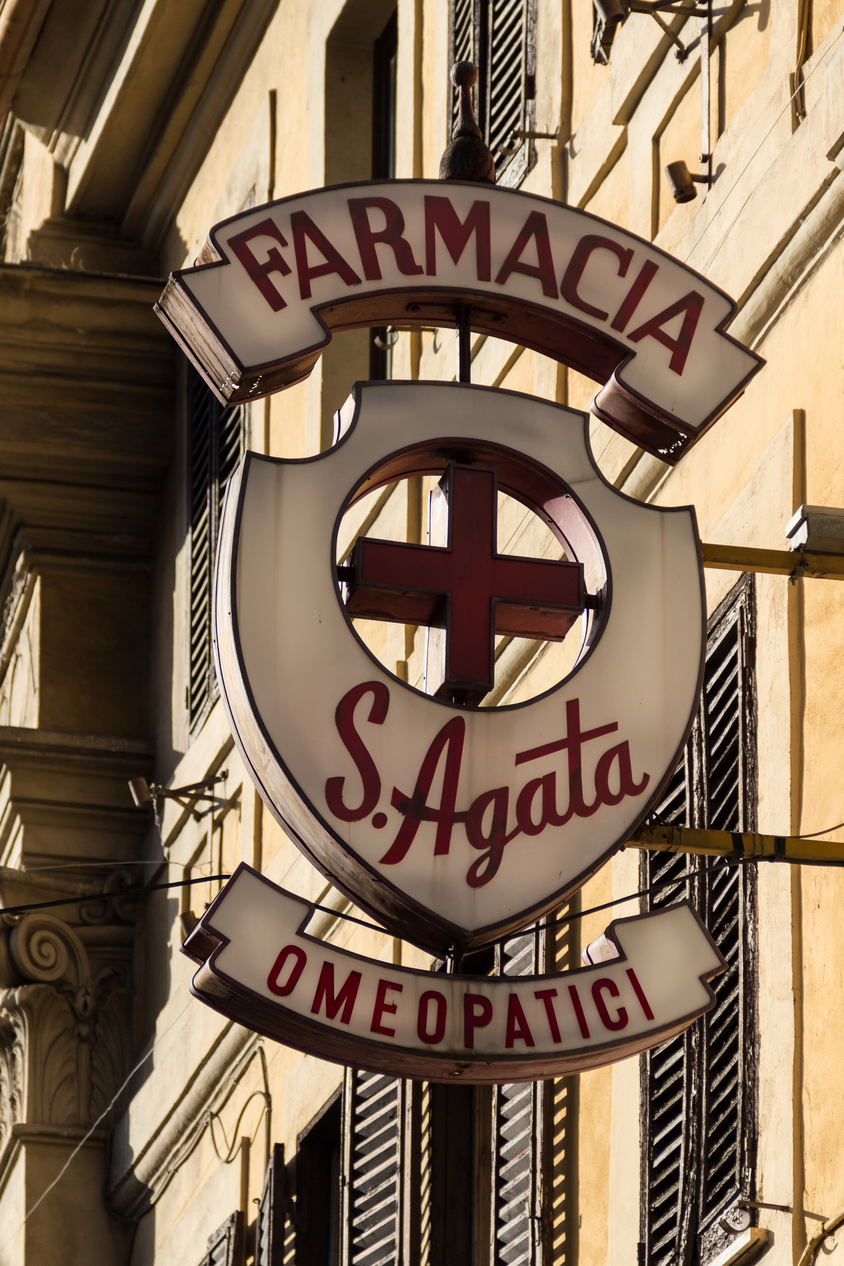 Sign of a pharmacy in Rome, Italy